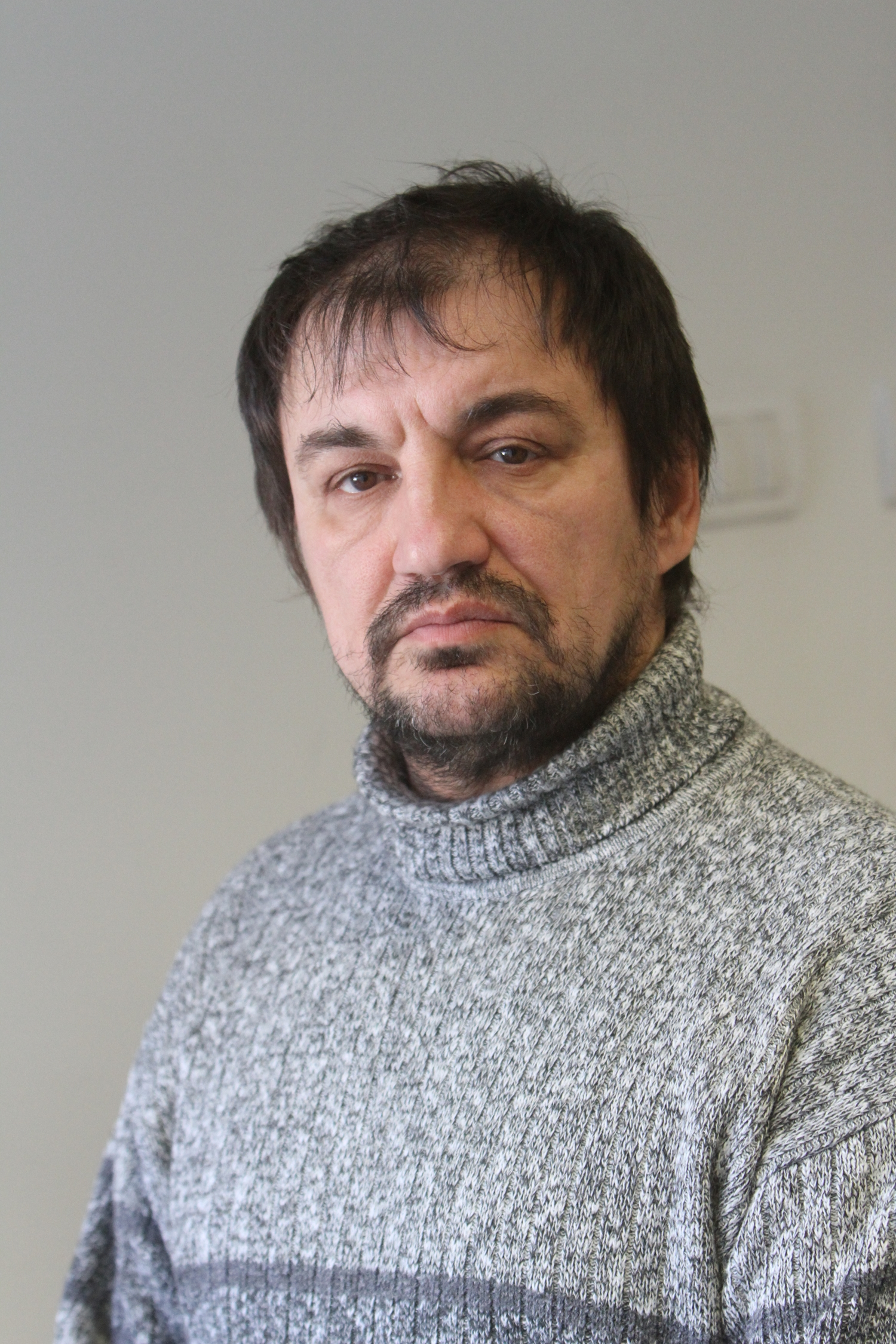 Toni Ranđelović, ballet dancer, and Ballet Manager of the Serbian National Theatre, Novi Sad Srpski (latinica): Toni Ranđelović, baletski igrač i direktor Baleta Srpskog narodnog pozorišta, Novi Sad Српски (ћирилица): Тони Ранђеловић, балетски играч и директор Балета Српског народног позоришта, Нови Сад